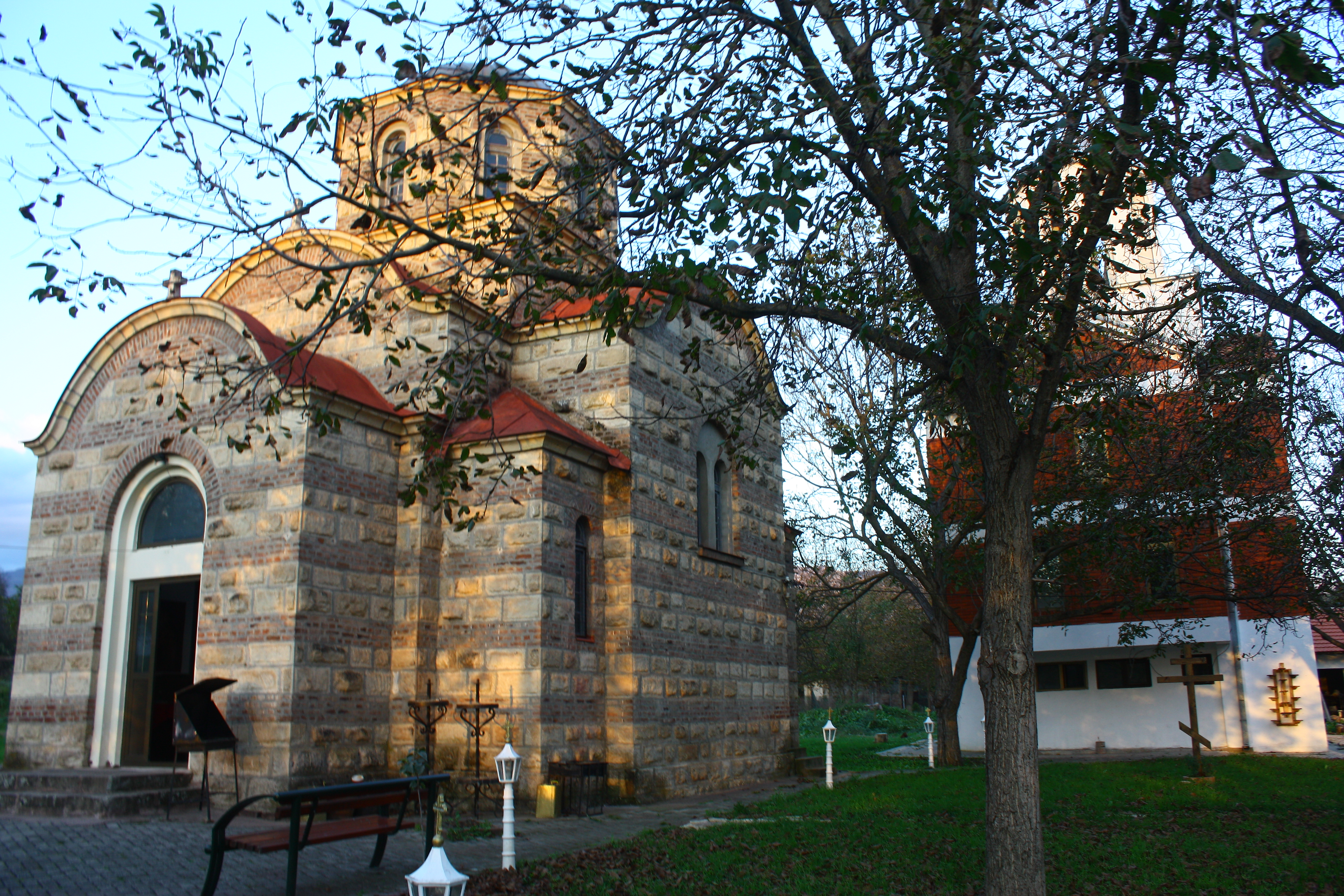 Čardak monastery, Mirkovci, Macedonia Ова е фотографија на споменик на културата во Македонија со типски код: E03This is a a photo of a cultural monument in North Macedonia with type id: E03